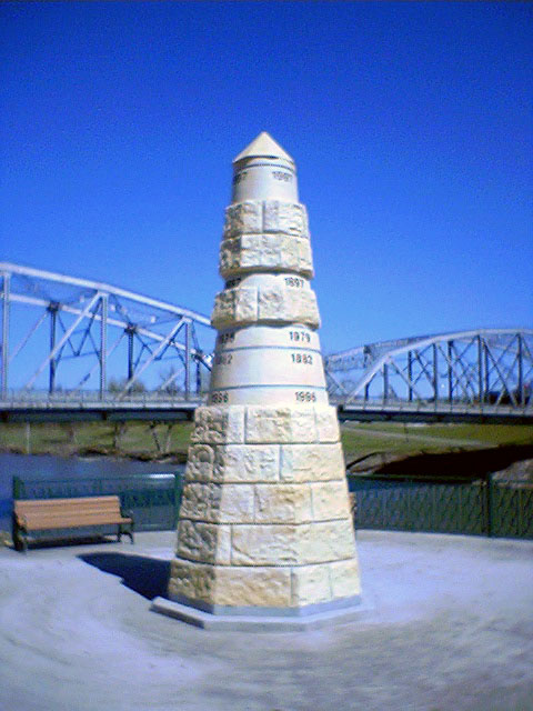 Cairn commemorating the Red River Flood at Grand Forks. Picture taken by Alexwcovington and released under the GFDL.